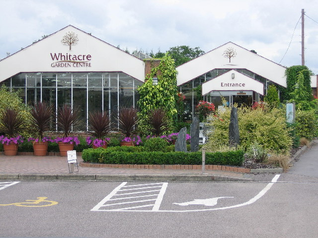 Whitacre Garden Centre. This garden centre has evolved over the years. It boasts many features, including a place to eat. Edit: Whitacre Garden Centre closed down in 2012 and a housing estate, on which building began in 2016, now occupies the site